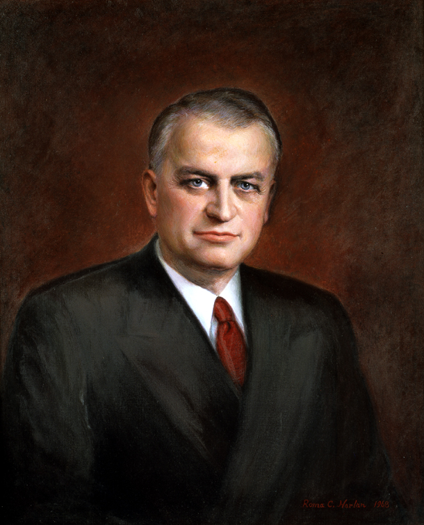 Portrait of Kenneth S. Wherry (1892–1951), a U.S. Senator from Nebraska